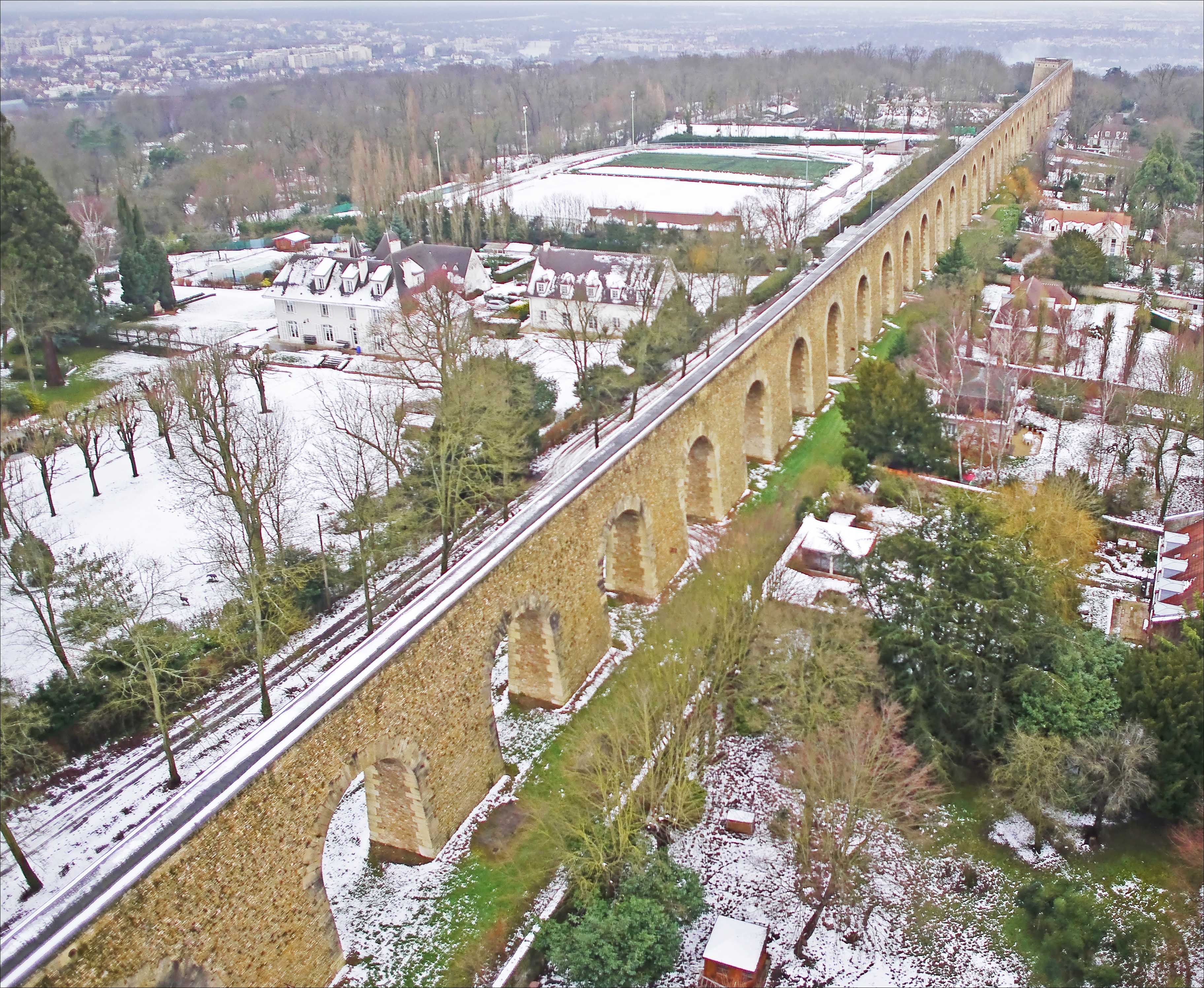 Marly Machines. Aqueduct bridge of Louveciennes.